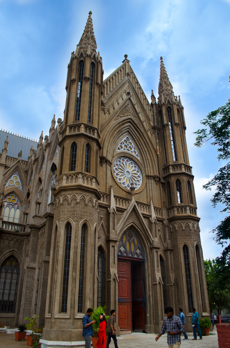 St. Philomena's Church, Mysore